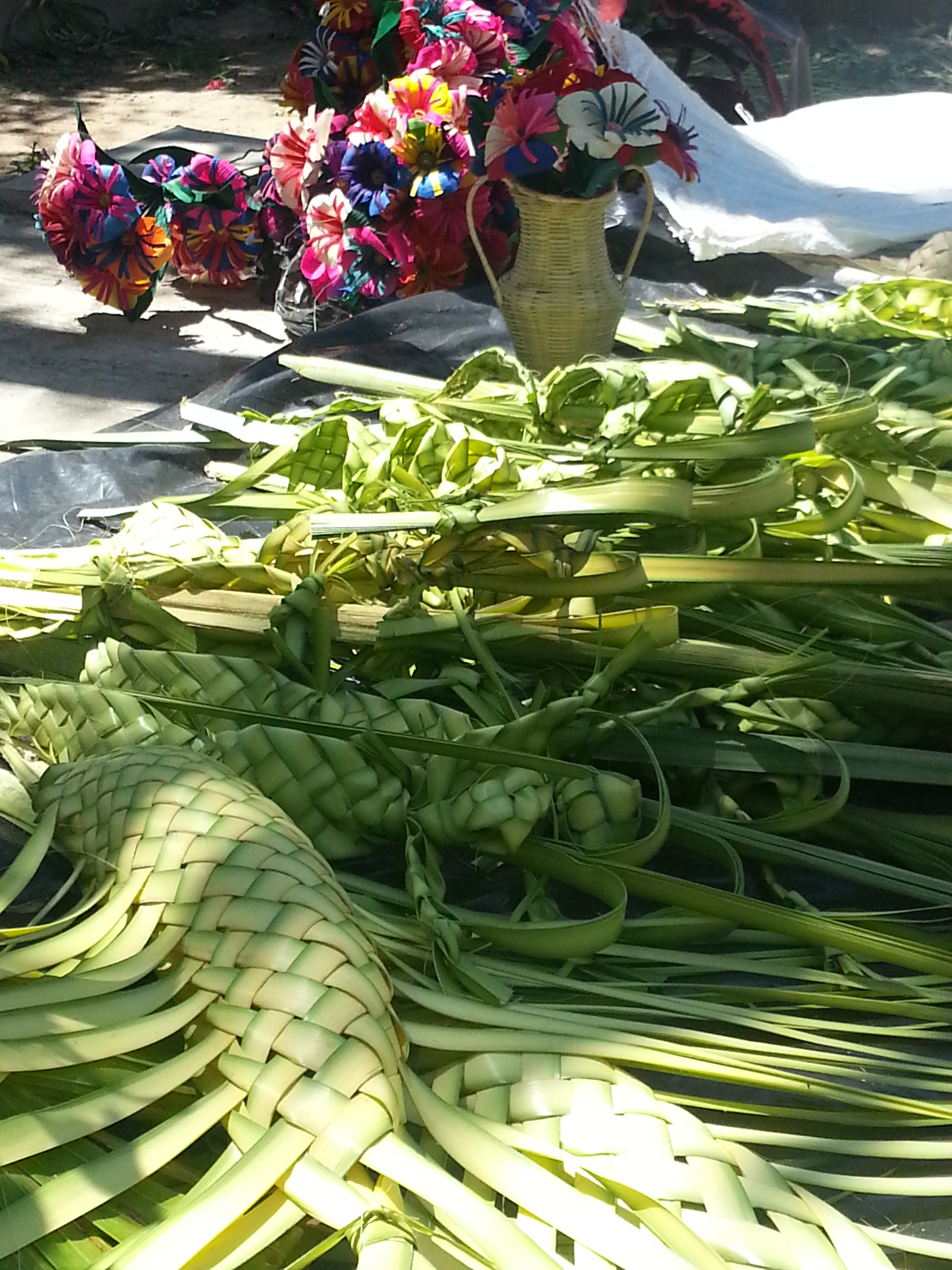 In Mexico it's customary to visit churches and bless branches or palms the last Sunday before Holy Week